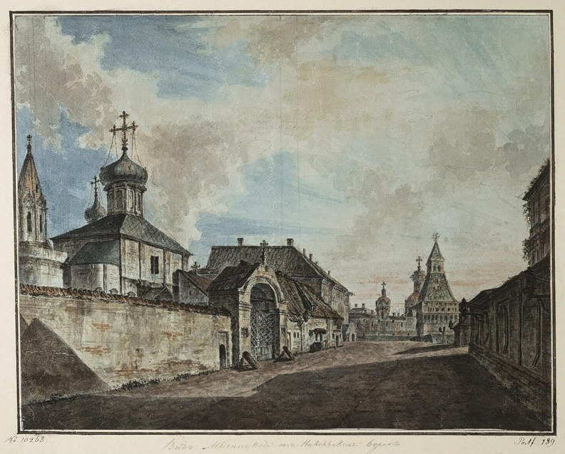 View from the Lubyanka square to Vladimirskiye gate